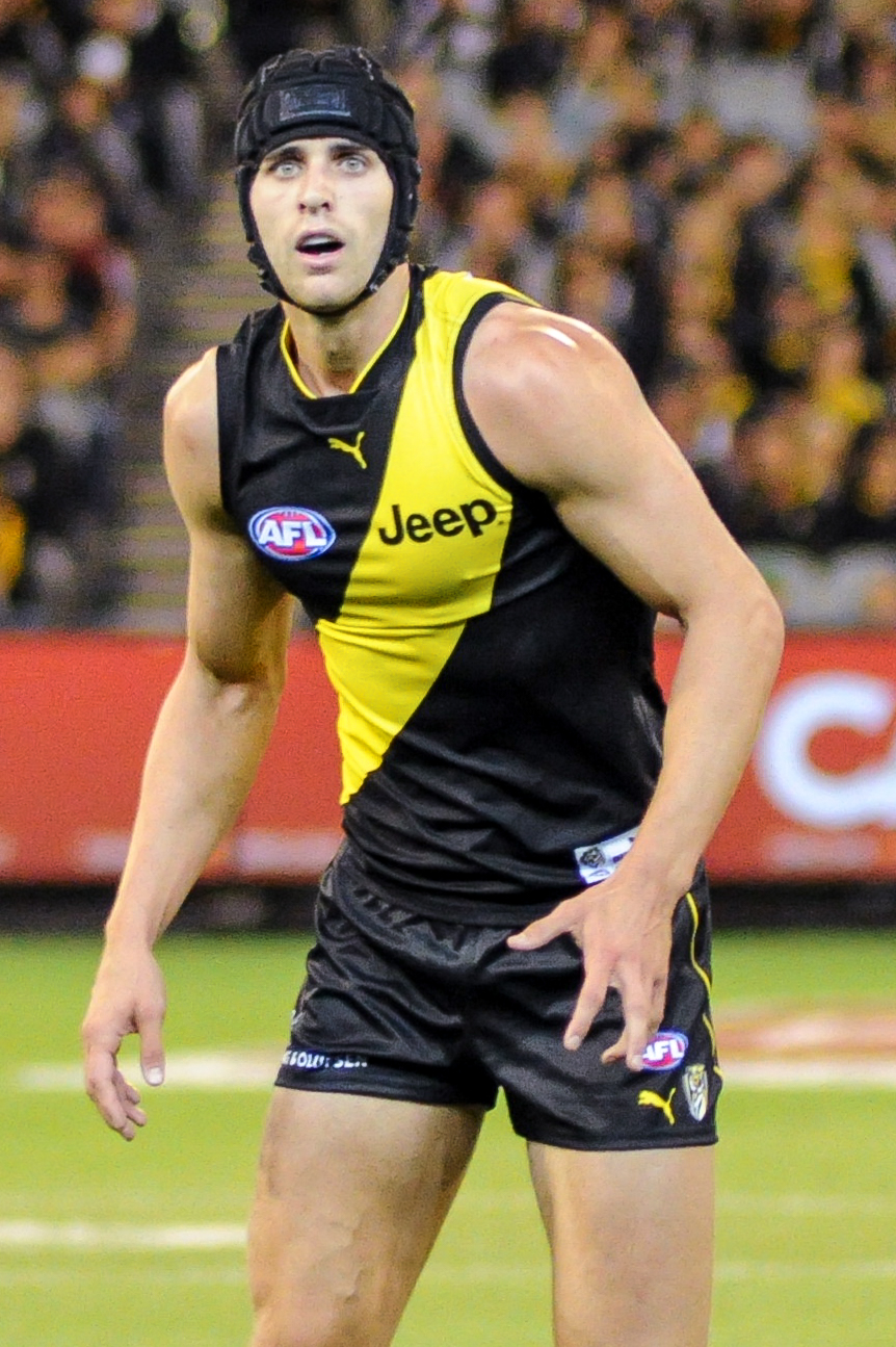 Ben Griffiths during the AFL round two match between Richmond and Collingwood on 30 March 2017 at the Melbourne Cricket Ground in Melbourne, Victoria.